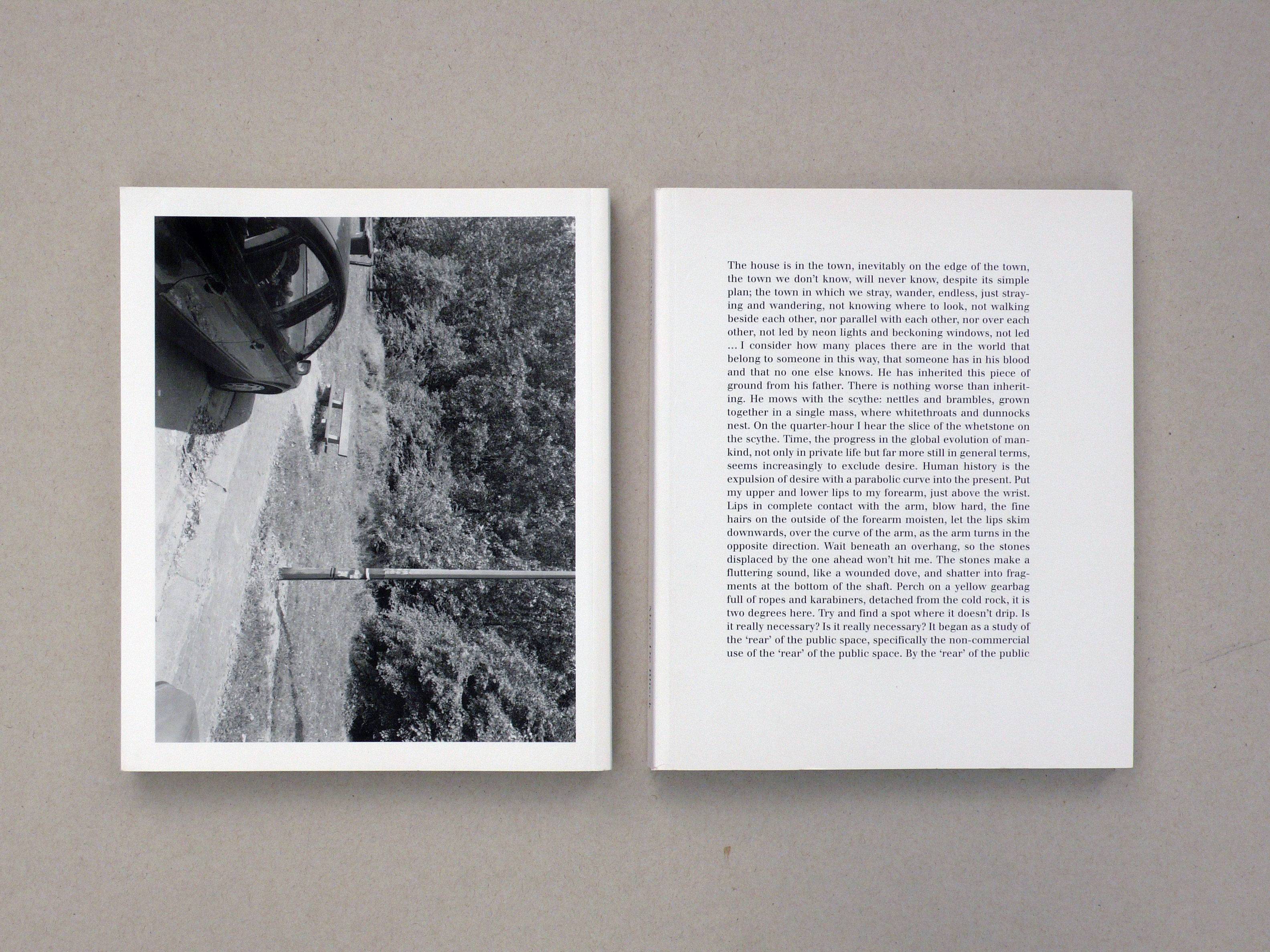 Front and back cover of "Livre sans titre" by Wim Cuyvers and Marc Deblieck (2002), designed by Filiep Tacq